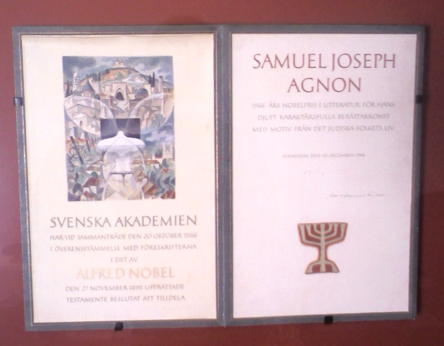 nobel diploma of Shmuek Yosef Agnon